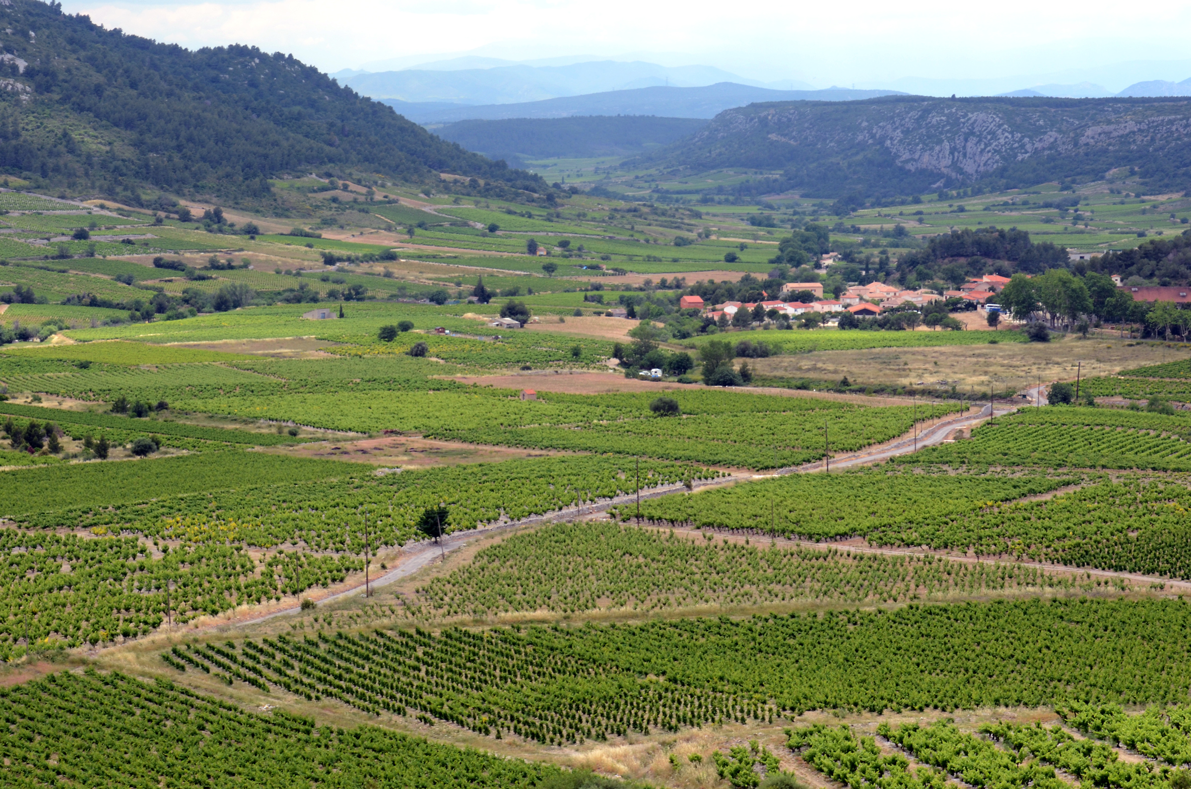 Tautavel